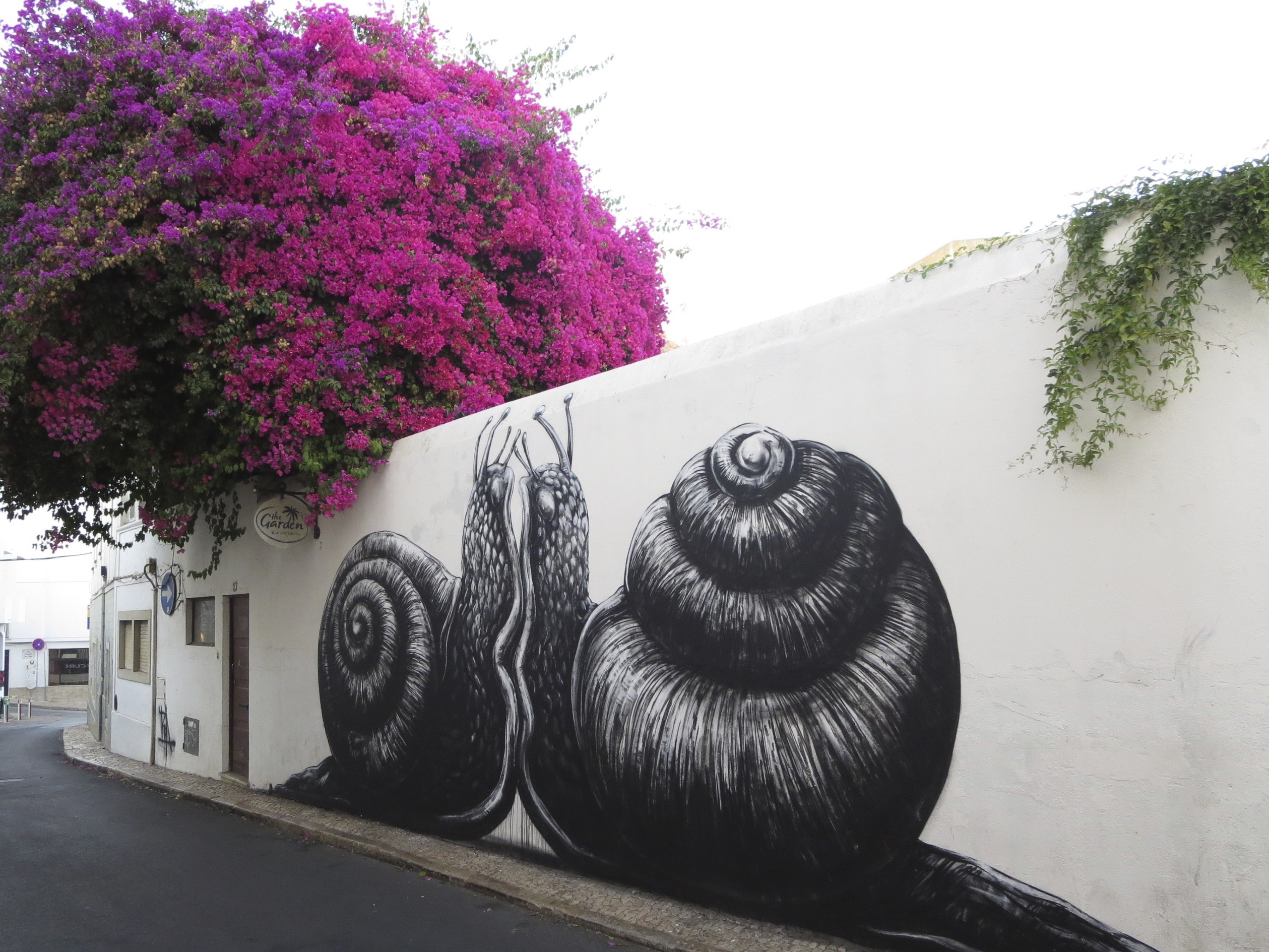 A mural of two snails by the Belgian artist ROE located on a wall located in Rua Lançarote de Freitasin in the town of Lagos, Algarve, Portugal.